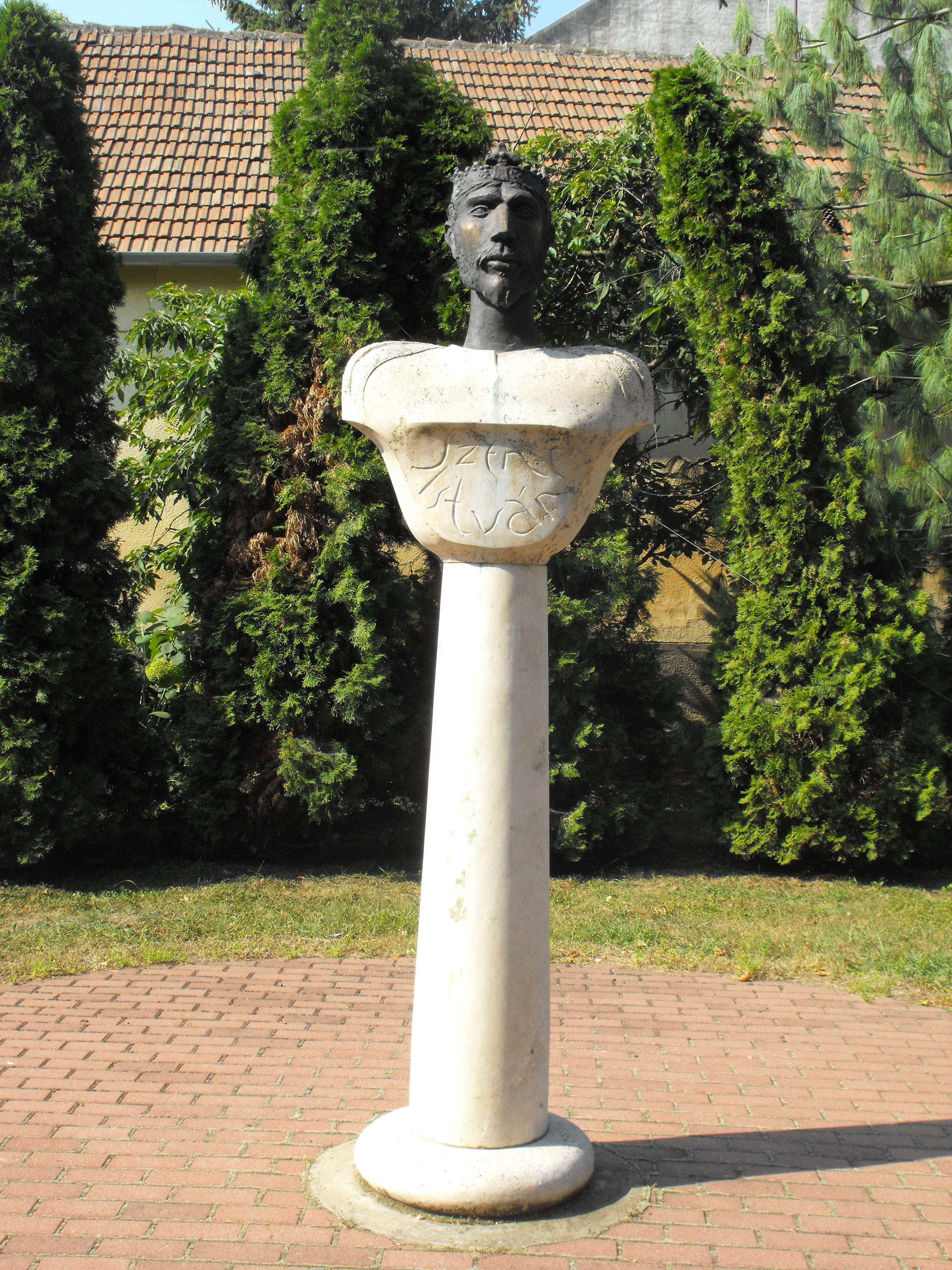 Statue of Stephen I of Hungary in Elek.